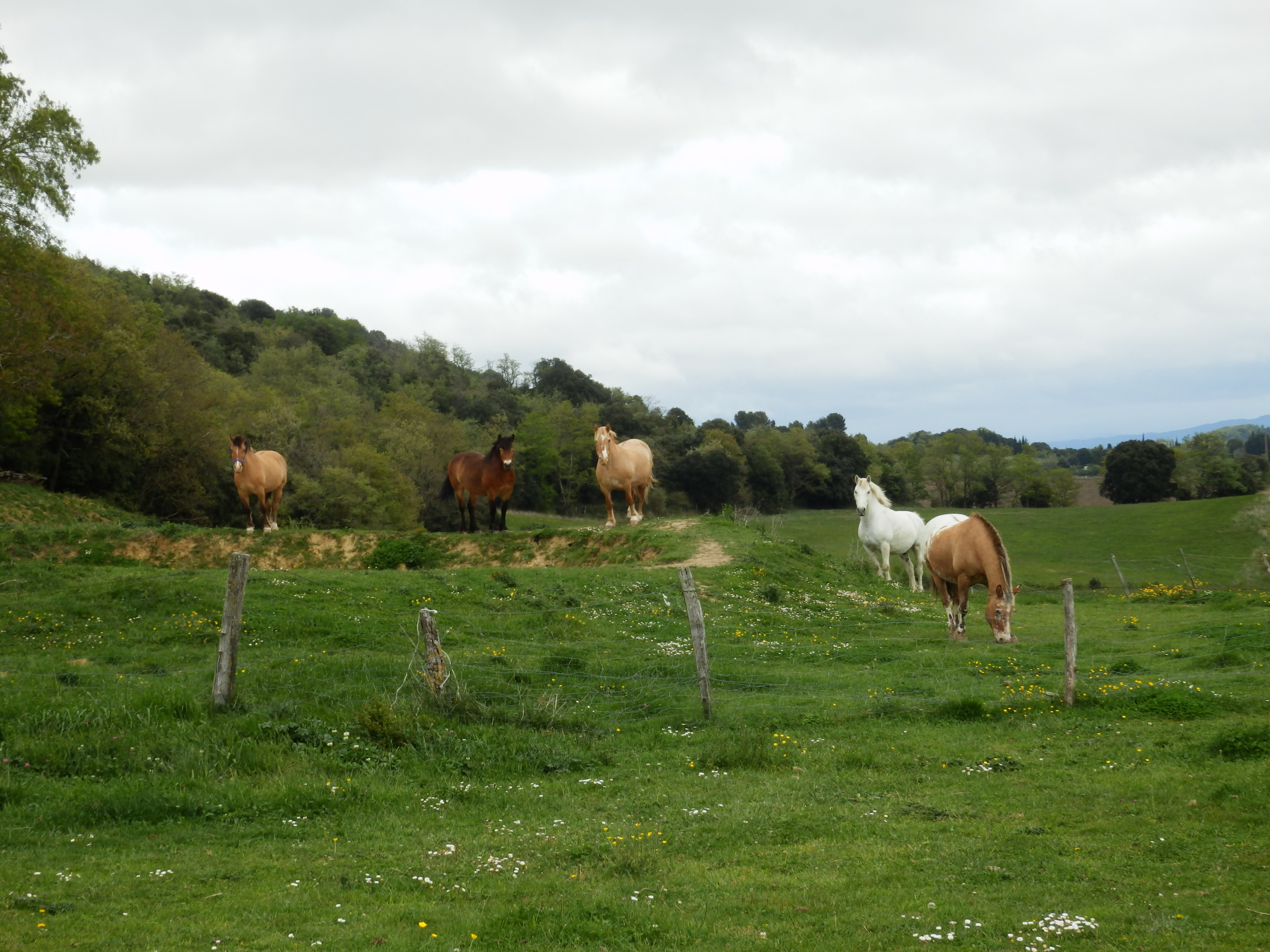 Horses in Pomy, Aude, France